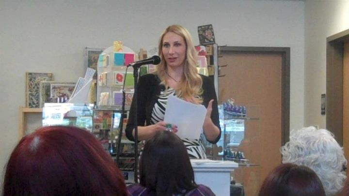 Melissa Studdard reading at Flintridge Bookstore and Coffeehouse in Los Angeles, CA, USA - March 18, 2012